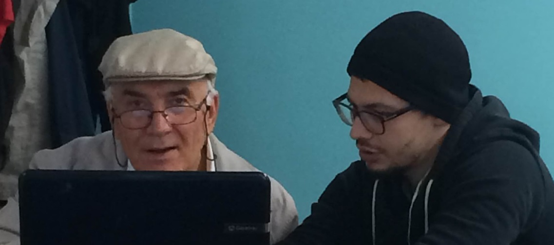 InterACTion workshop